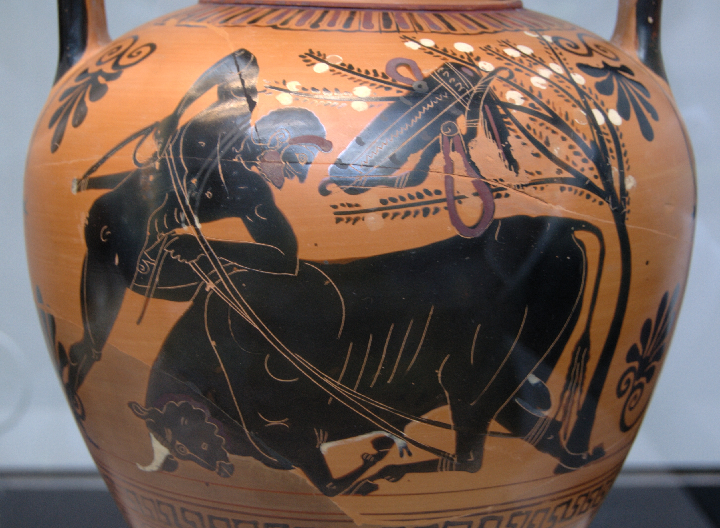 Heracles binds the Cretan bull. Attic black-figure amphora, ca. 510 BC. From Vulci.